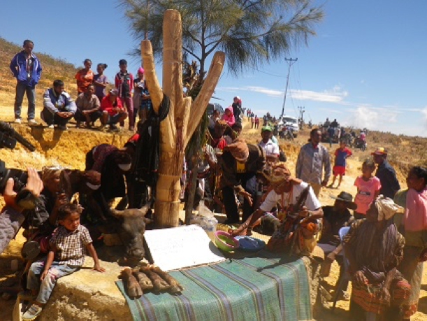 Tara Bandu ceremony for the inauguration of village regulation The community of Suco Fahisoi (Remexio) held Tara Bandu for inaugurating the village regulation formulated under PLUP process. (August 2017)